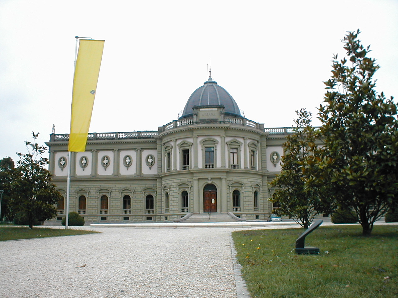 the building of the International Academy of Ceramics and Ariana Museum aka Swiss Museum of Ceramics and Glass in Geneva, Switzerland